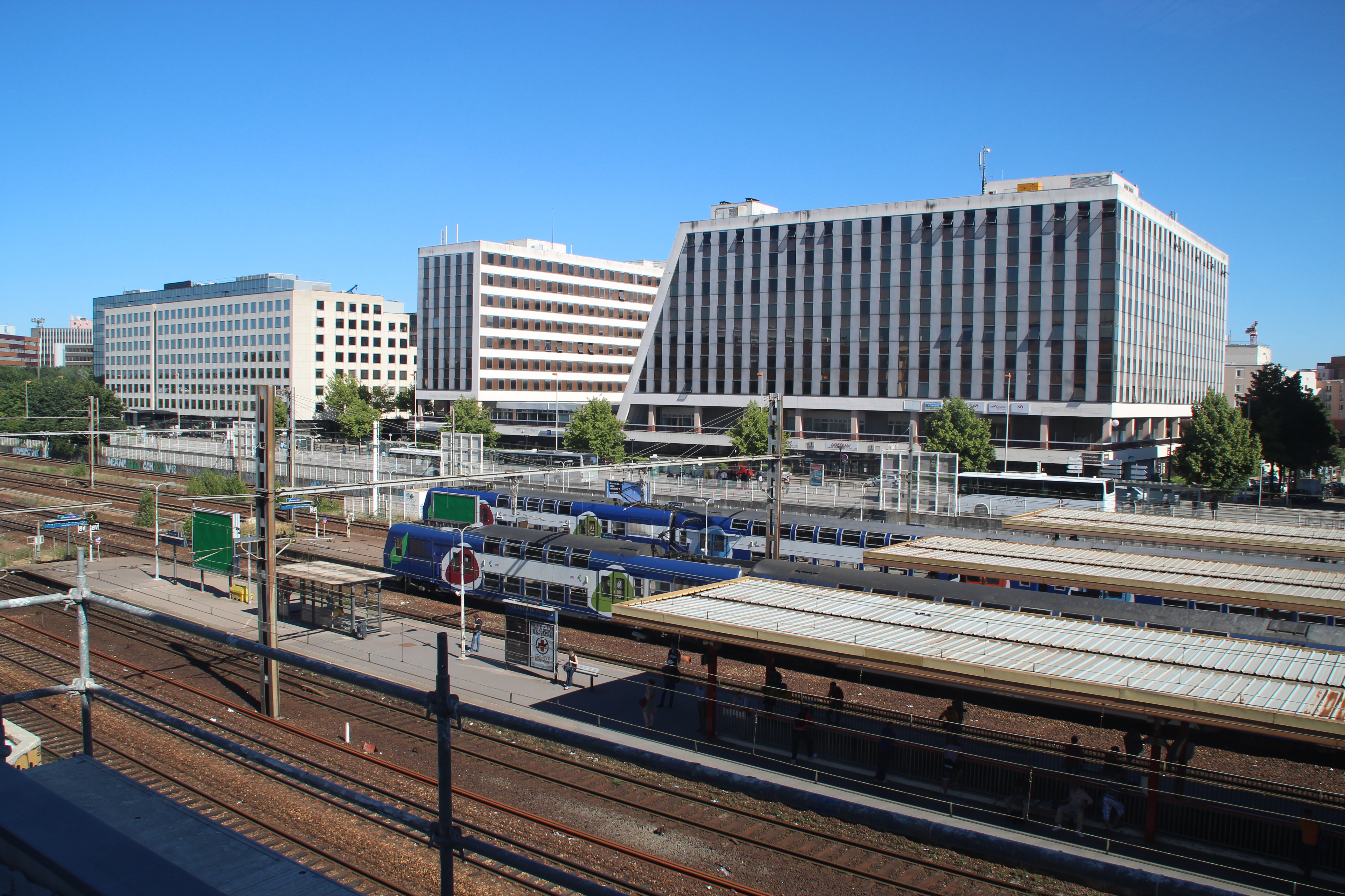 Train station Gare de Saint-Quentin-en-Yvelines - Montigny-le-Bretonneux located in Montigny-le-Bretonneux, France, being rebuild in august 2013.